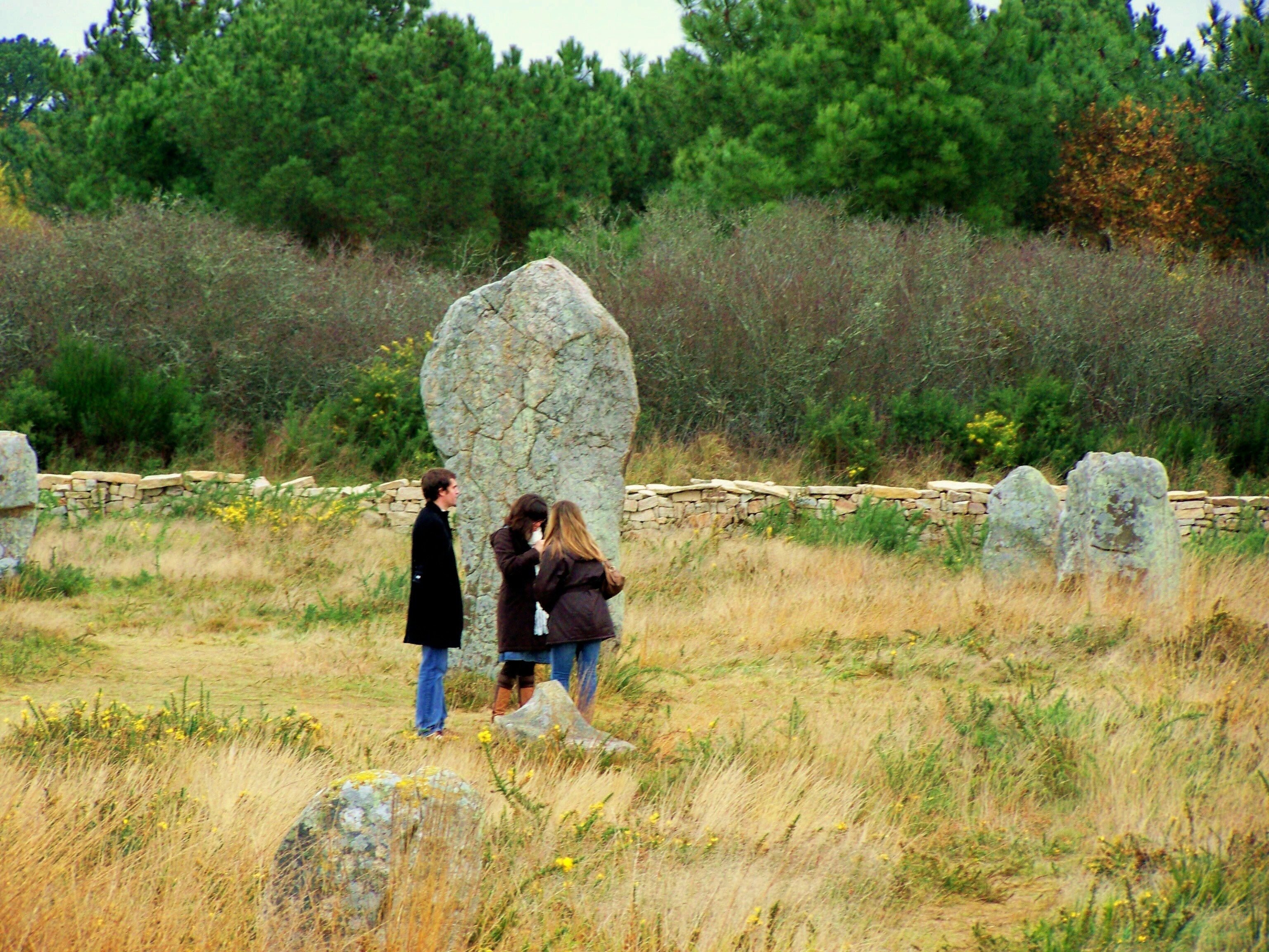 Single Standing Stone in the Menec alignment, Carnac, France